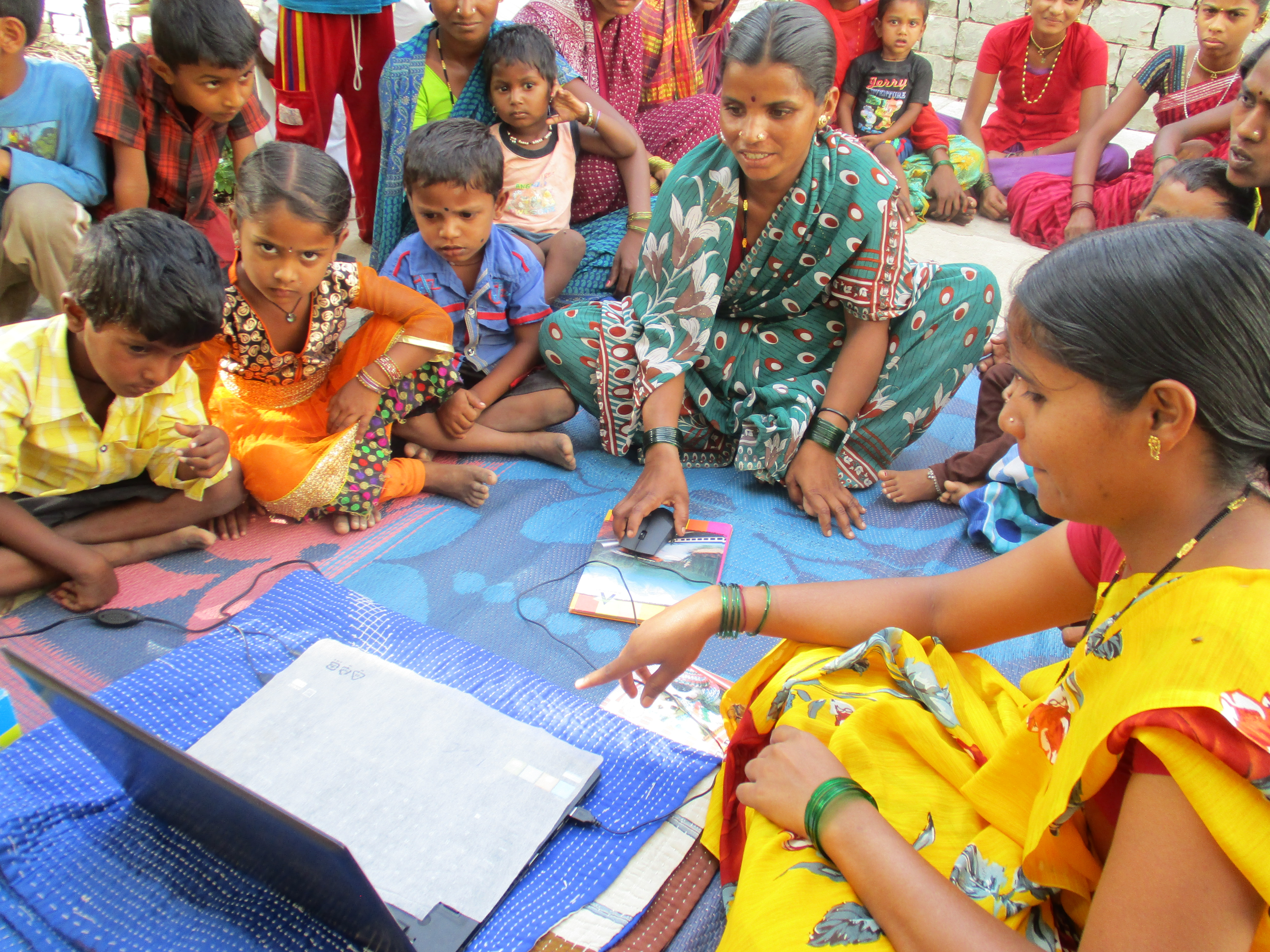 Technology makes adult literacy work more interesting. Technology is real its worth when even the common person starts using it.